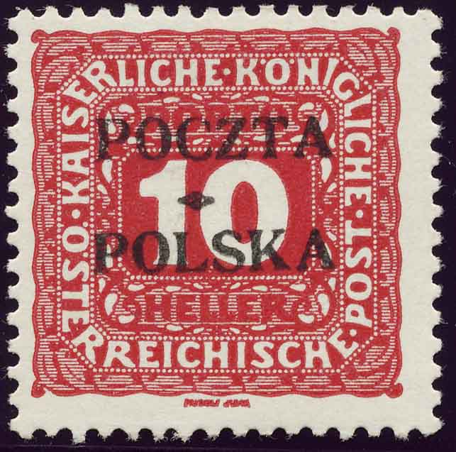 Poland Krakow overprint 1919, scanned September 2003 by User:JPKos For overprint